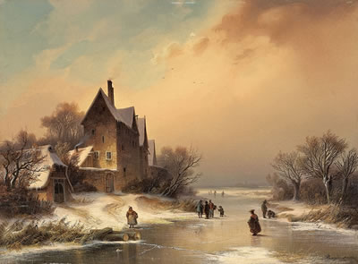 Dietrich Langko (1819 - 1896). WINTER_LANDSCAPE_WITH_FROZEN_RIVER.